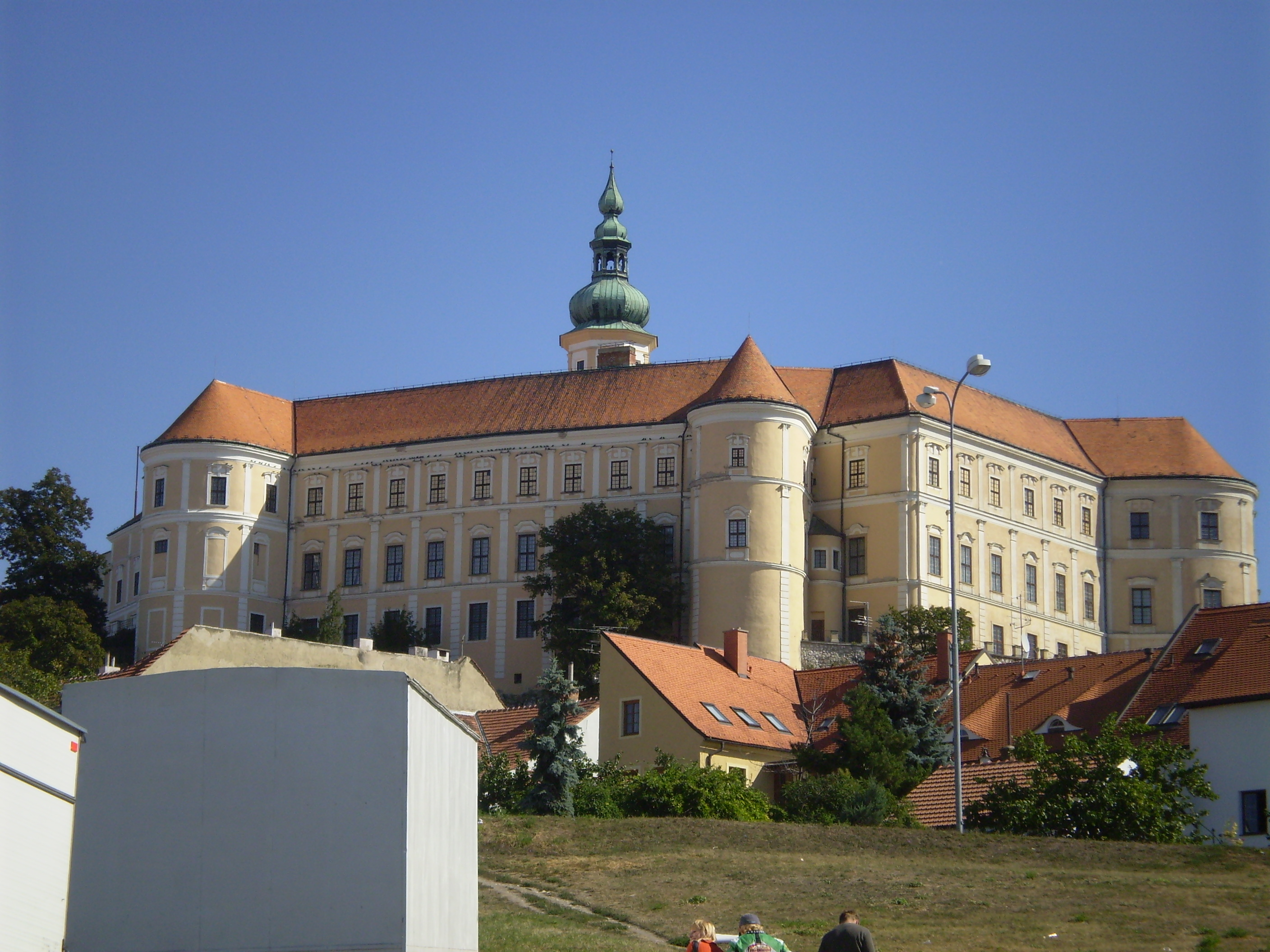 Zámek Mikulov.